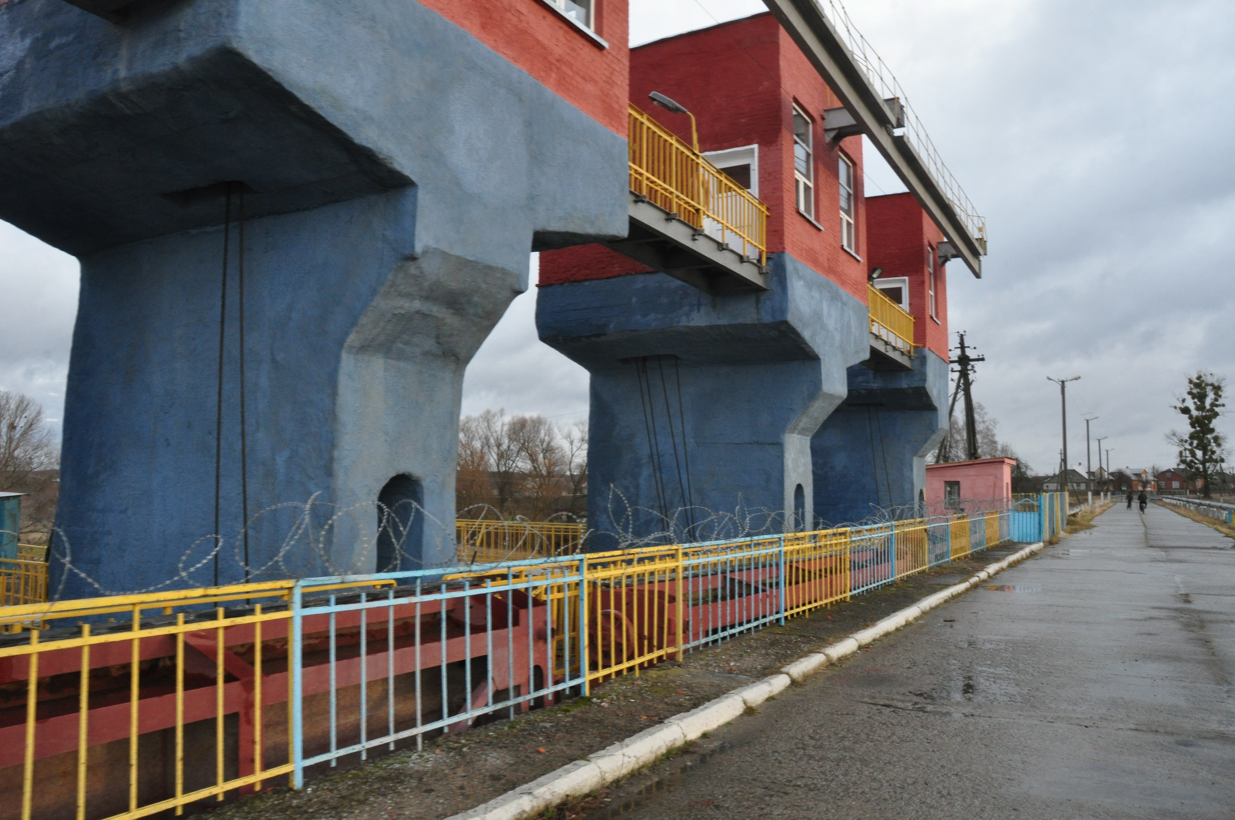 Dam of the Dobrotvir Reservoir, Kamyanka-Buzka Raion, Lviv Oblast